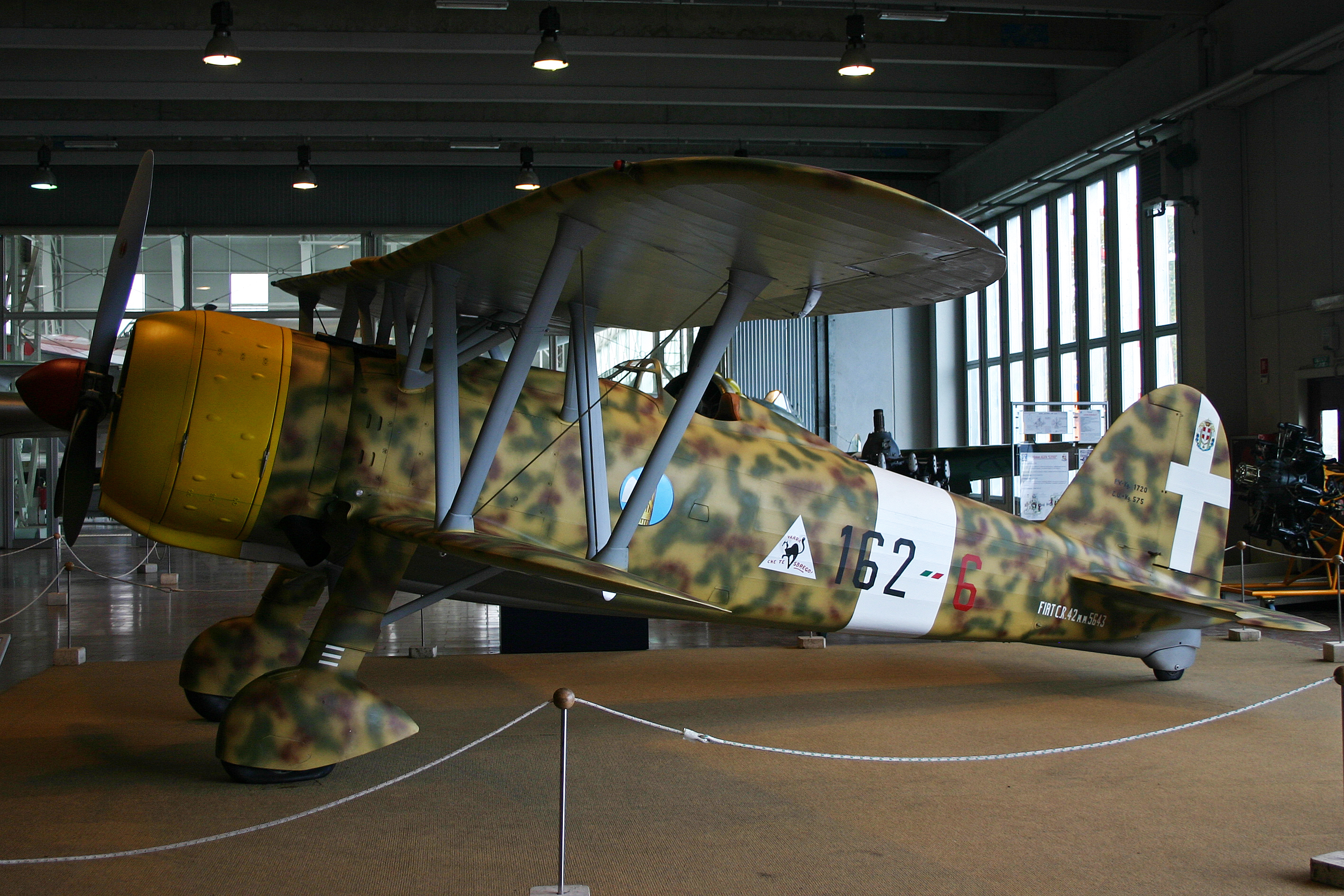 Displayed in Hangar VELO. Restored in non-genuine Italian AF markings as MM5643. Actually ex Swedish AF 2539 and SE-AOP. msn 917